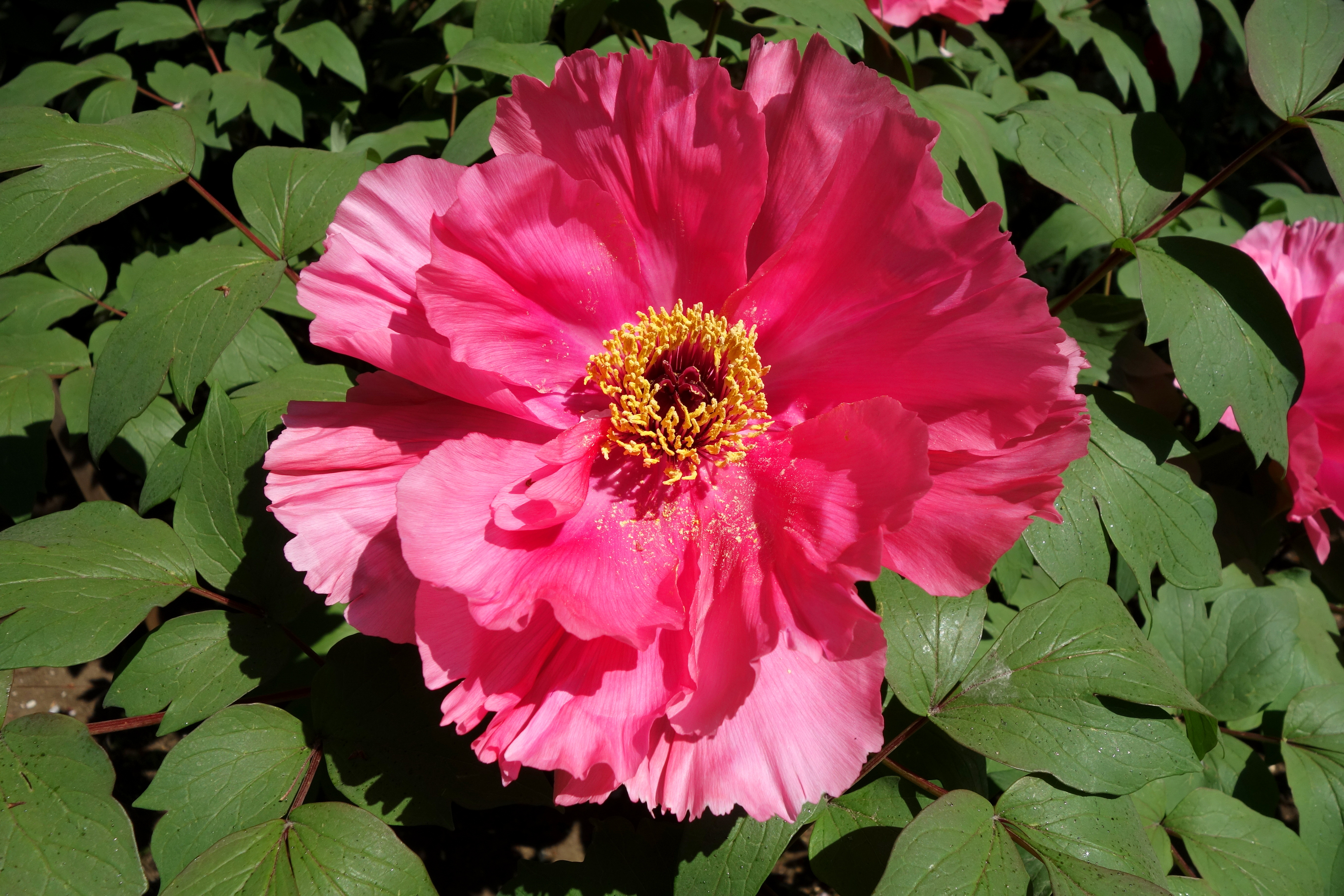 Ueno Tōshō-gū Peony Garden, Ueno Tōshō-gū shrine, Ueno Park, Tokyo, Japan.